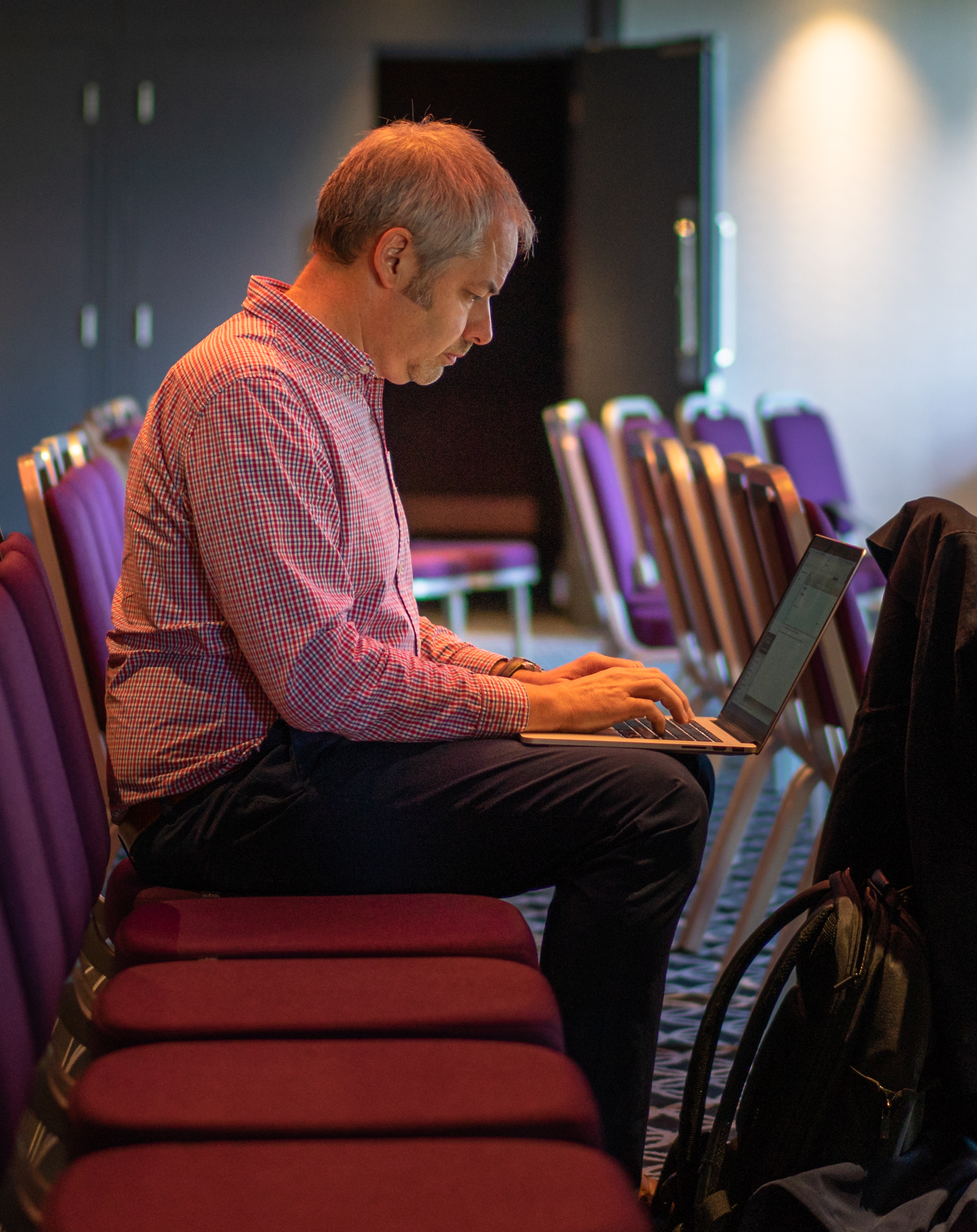 Julian Rayner, scientist